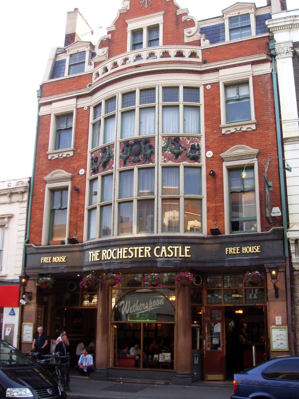 The Wetherspoons on the High St. (It was in the Good Beer Guide in 1993/94 as the Tanner's Hall.) Address: 145 Stoke Newington High Street. Former Name(s): The Tanner's Hall; The Green Dragon (on the same site). Owner: JD Wetherspoon (website). Links: Fancyapint Beer in the Evening Dead Pubs (history)